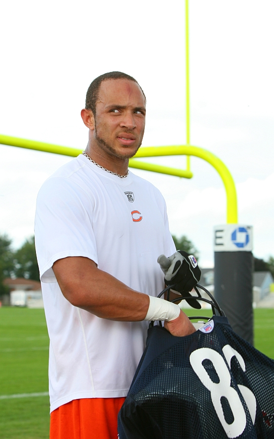 I took this picture of Timon Marshall on July 27, 2007 at the Chicago Bears training camp in Bourbonnais, Illinois.